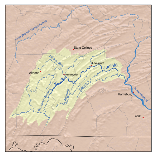 This is a map of the Juniata River Watershed. I, Karl Musser, created it based on USGS data.